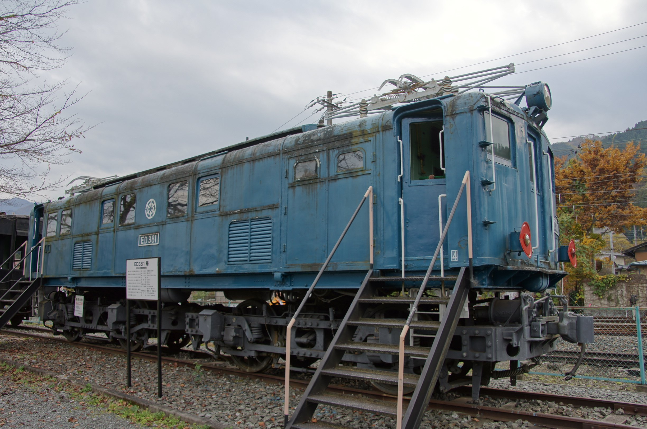 Preserved Chichibu Railway Class ED38 electric locomotive number ED38 1 at the Chichibu Railway Park next to Mitsumineguchi Station in Saitama Prefecture, Japan